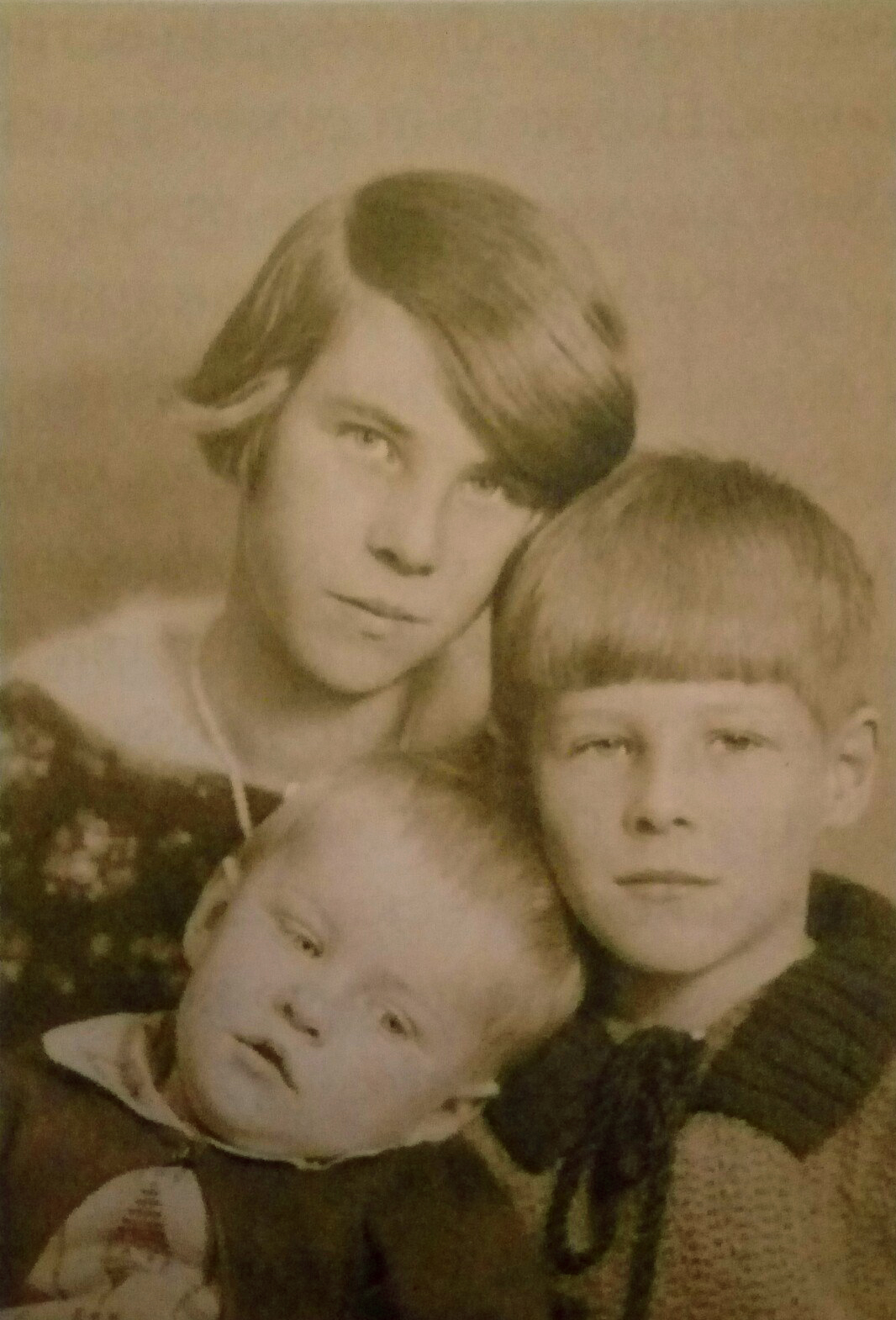 Tove Jansson with her brothers